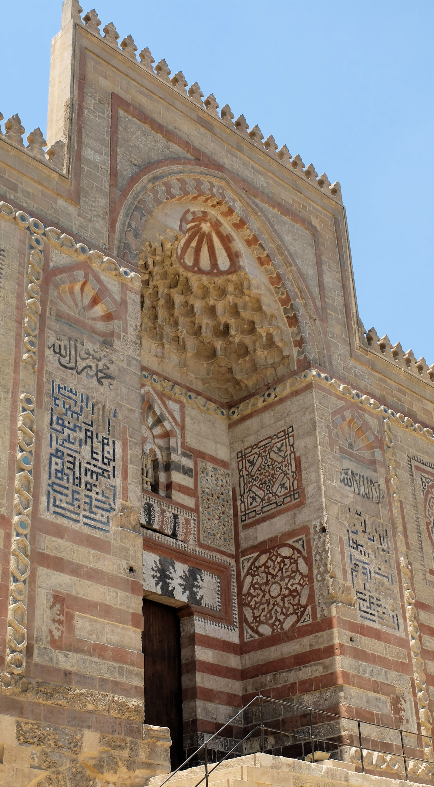 The monumental portal of the Maristan of Sultan al-Mu'ayyad Sheikh (after recent restoration).